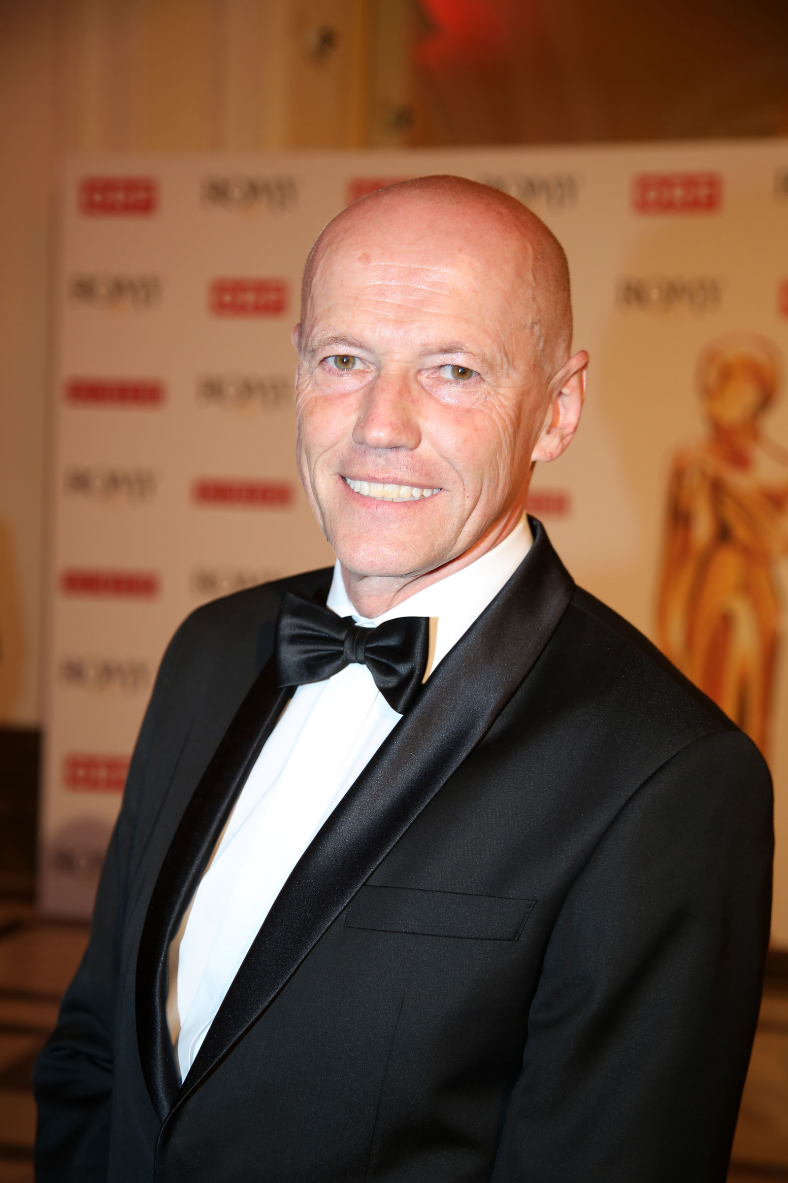 Peter Resetarits at Romy2015